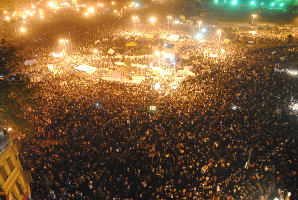 Tahrir Square on November 22nd